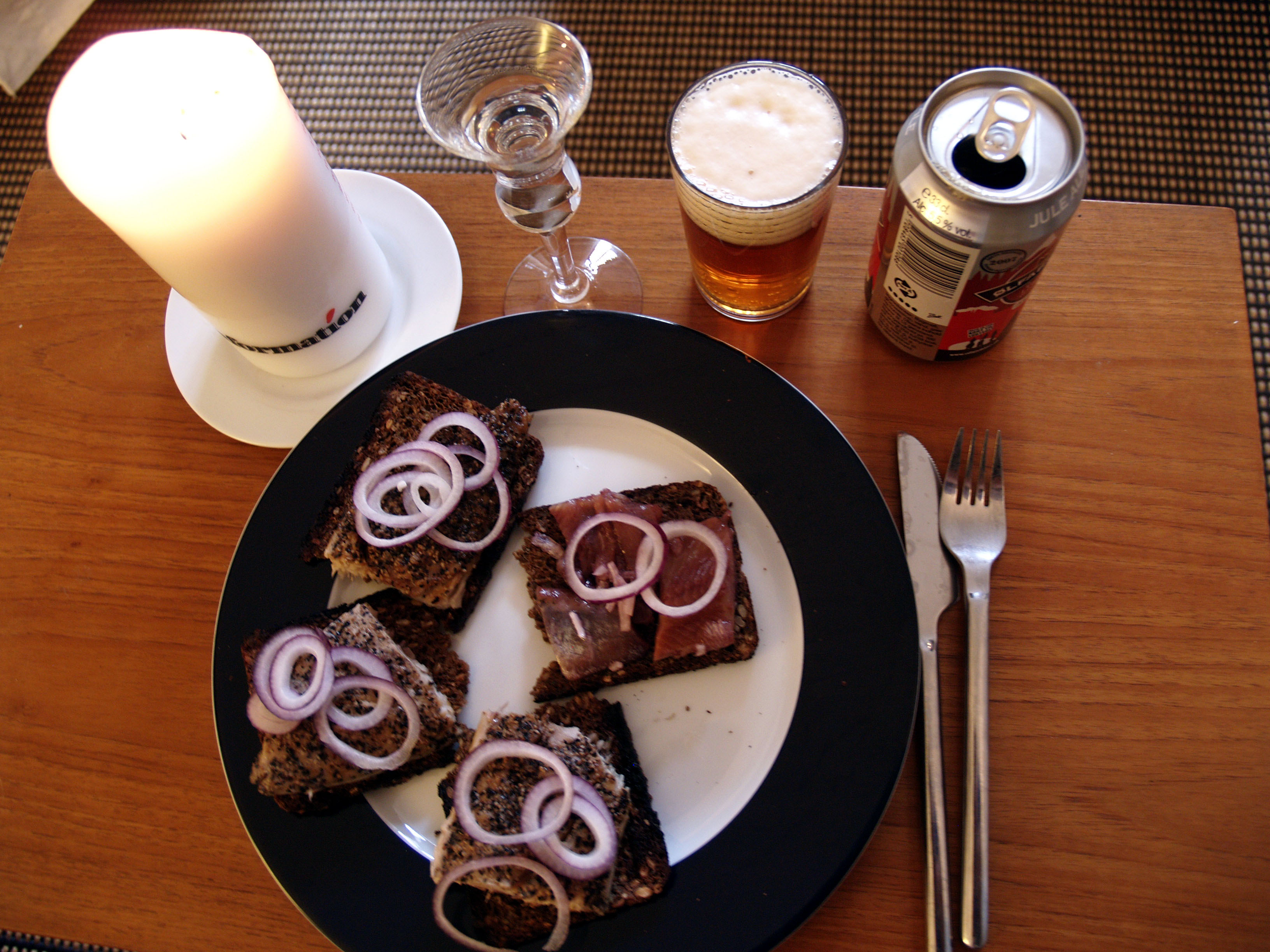 Sild og makrel med snaps og øl, en: Pickled herring on rye bread se: marinerad sill på rågbröd ja: ライ麦パンにニシンのピクルス Cuisine: Denmark